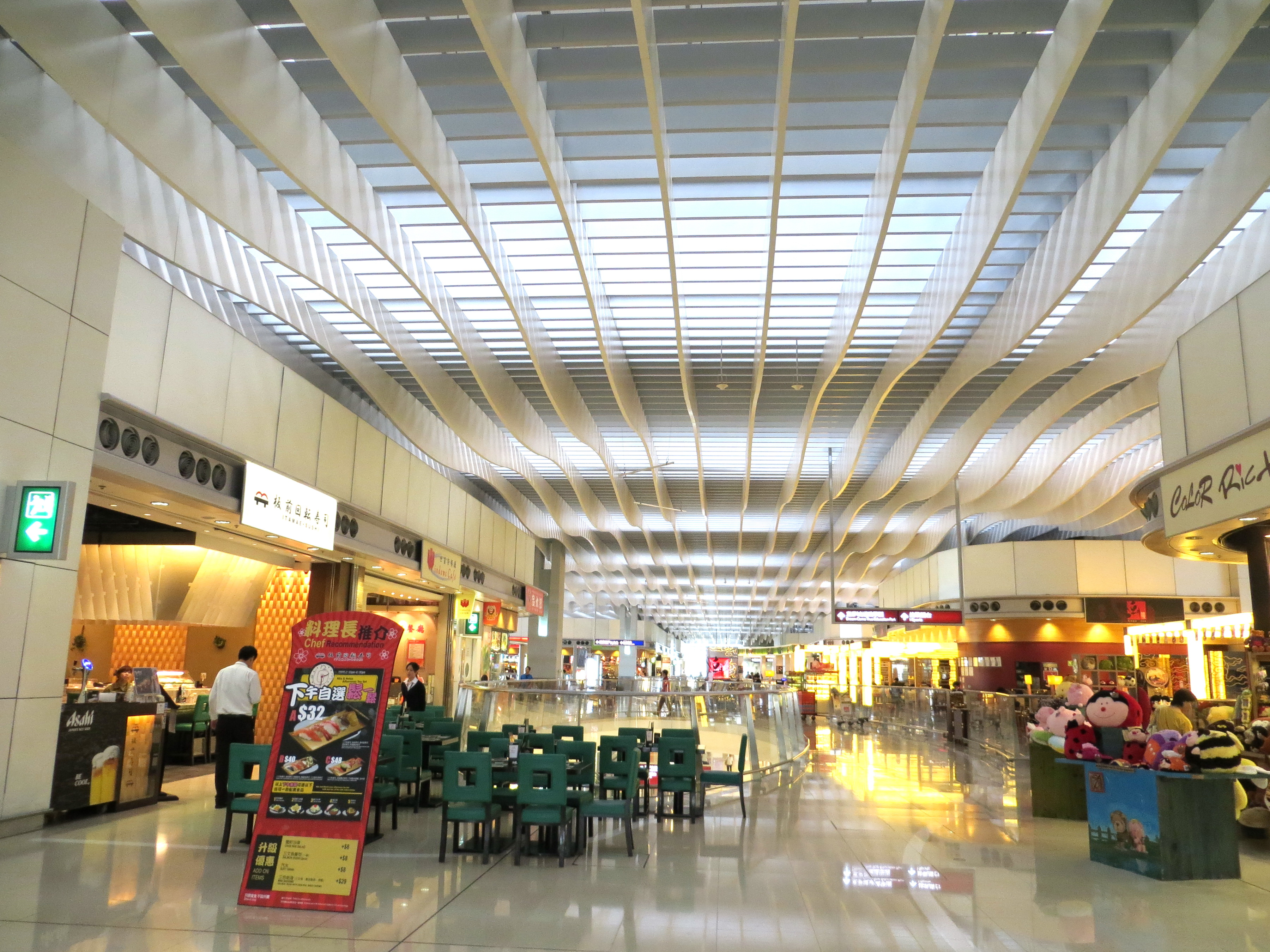 SkyPlaza (Terminal 2, Level 6, Hong Kong International Airport)